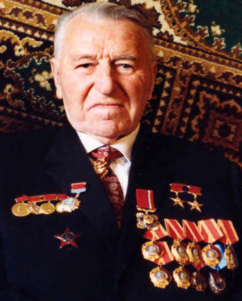 Sergey Aleksandrovich Afanasiev, Soviet engineer, space and defence industry executive, the first Minister of the Soviet-era Ministry of Common machinery, on his 80th birthday in Moscow in 1998. Photo by Mikhail Evstafiev.